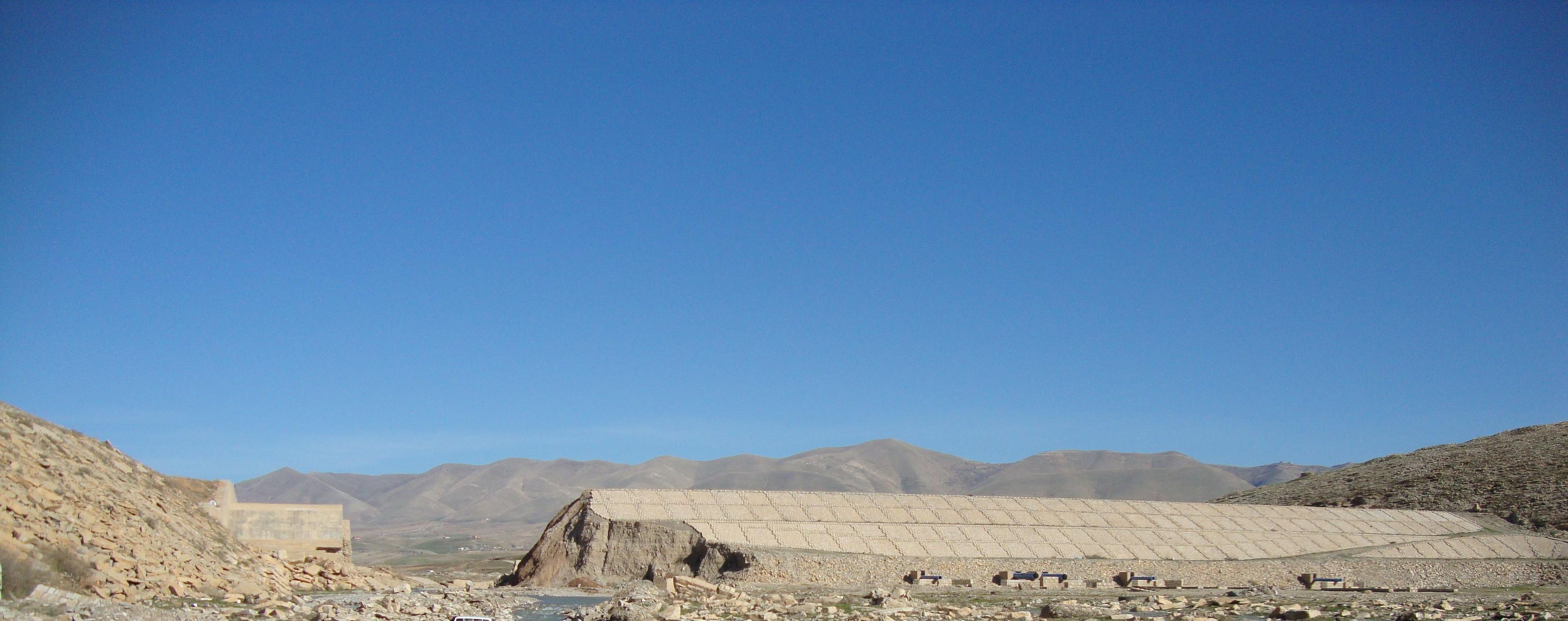 A Photo of Cheqcheq dam after it is collapsed on 4th of February, 2006 at about 10:00 pm.